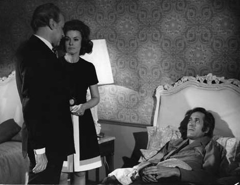 La flor de la mafia- película argentina